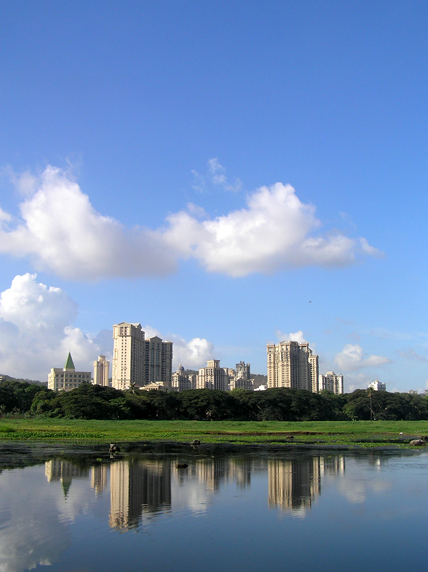 The buildings of the Hiranandani complex and other residential buildings in Powai are seen from the lake.